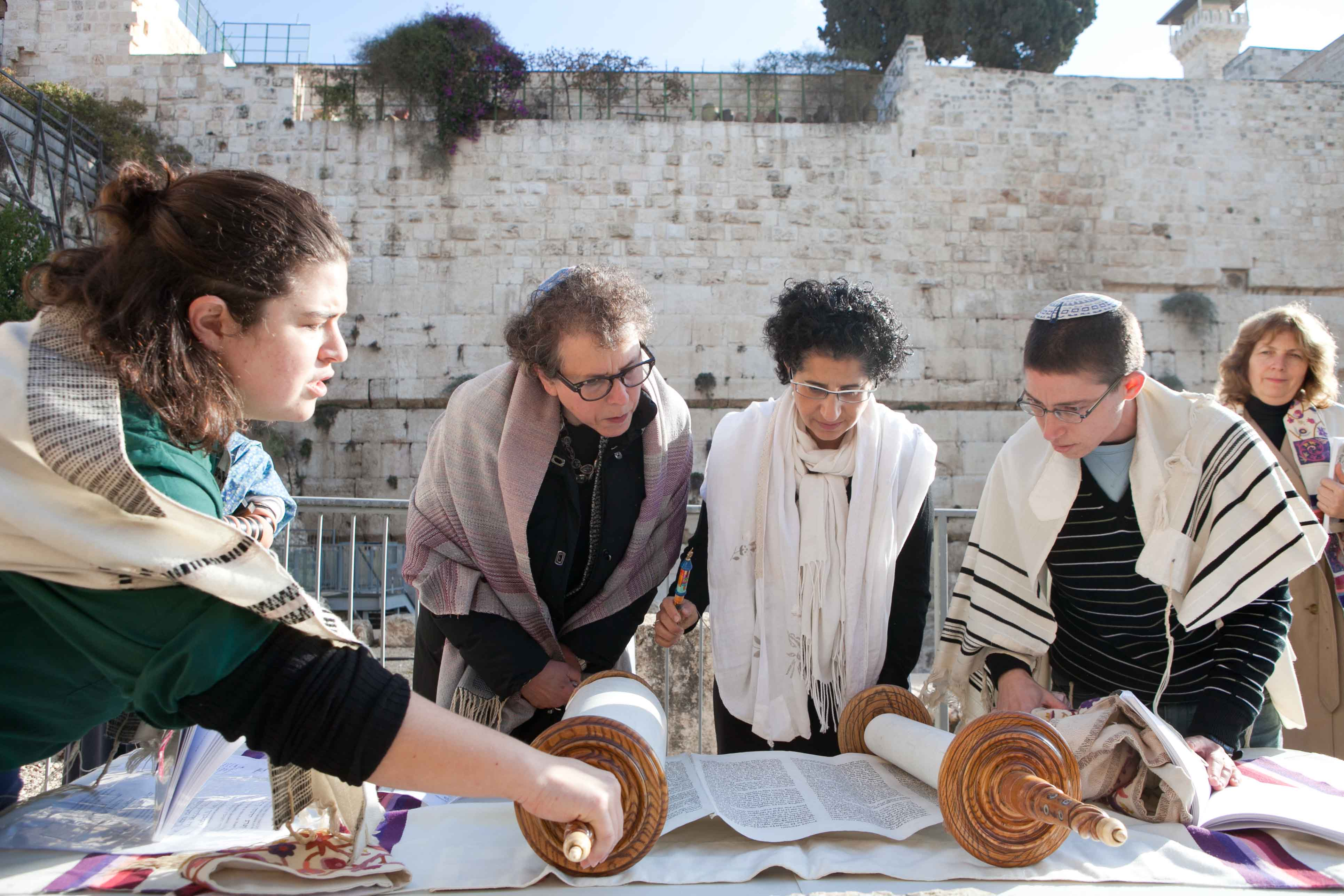 Women of the Wall reading from the Torah at Robinson's Arch. Rosh Chodesh Tevet 5773.